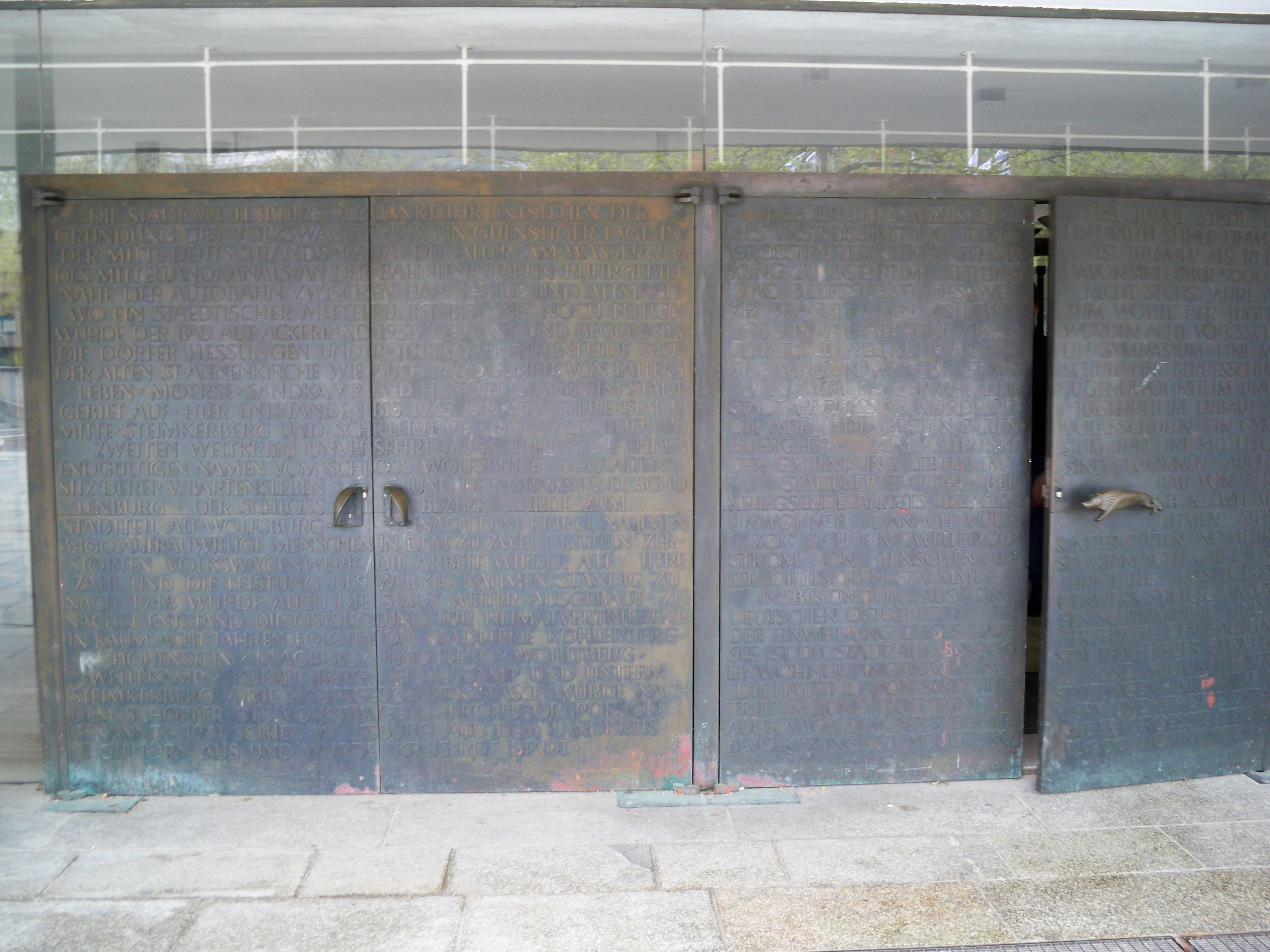 Wolfsburg, Lower Saxony, city hall, main entrance with written city history until 1958